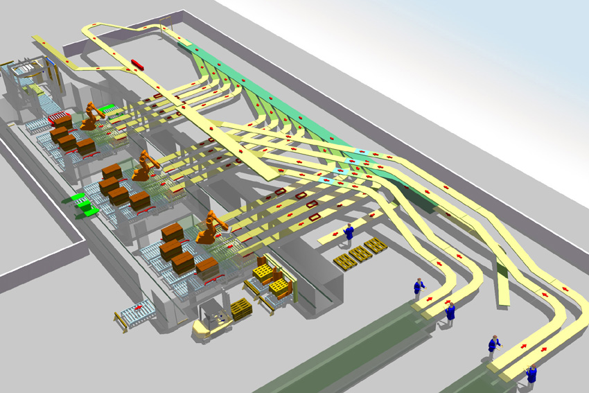 Automatic palletising project